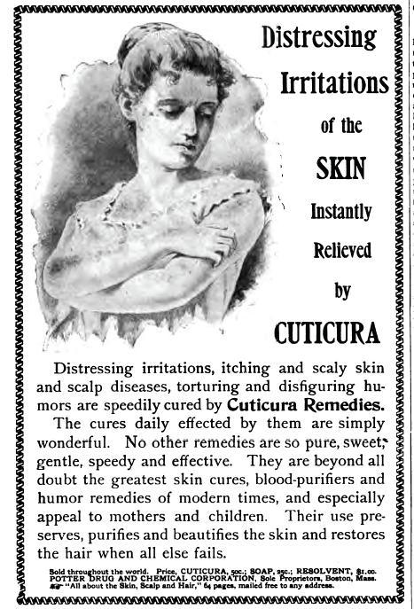 Advertisement for Cuticura Soap from June 1894 Good Housekeeping Magazine. Cuticura was produced by the Potter Drug and Chemical Co.